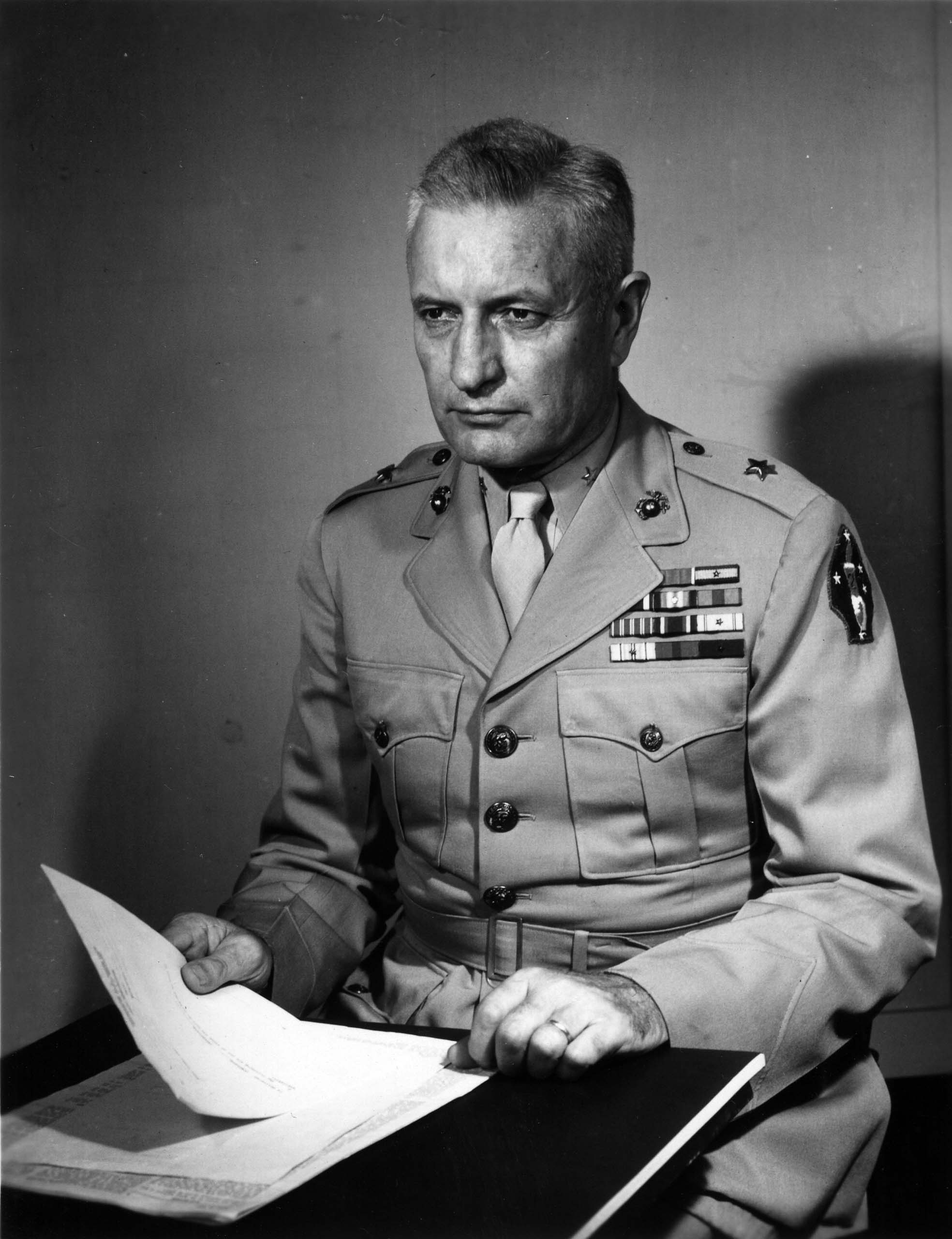 Elmer Edwards Hall (April 20, 1890 – September 22, 1958) was a decorated Officer of the United States Marine Corps with the rank of Brigadier General, who commanded 8th Marine Regiment during the Battle of Tarawa.